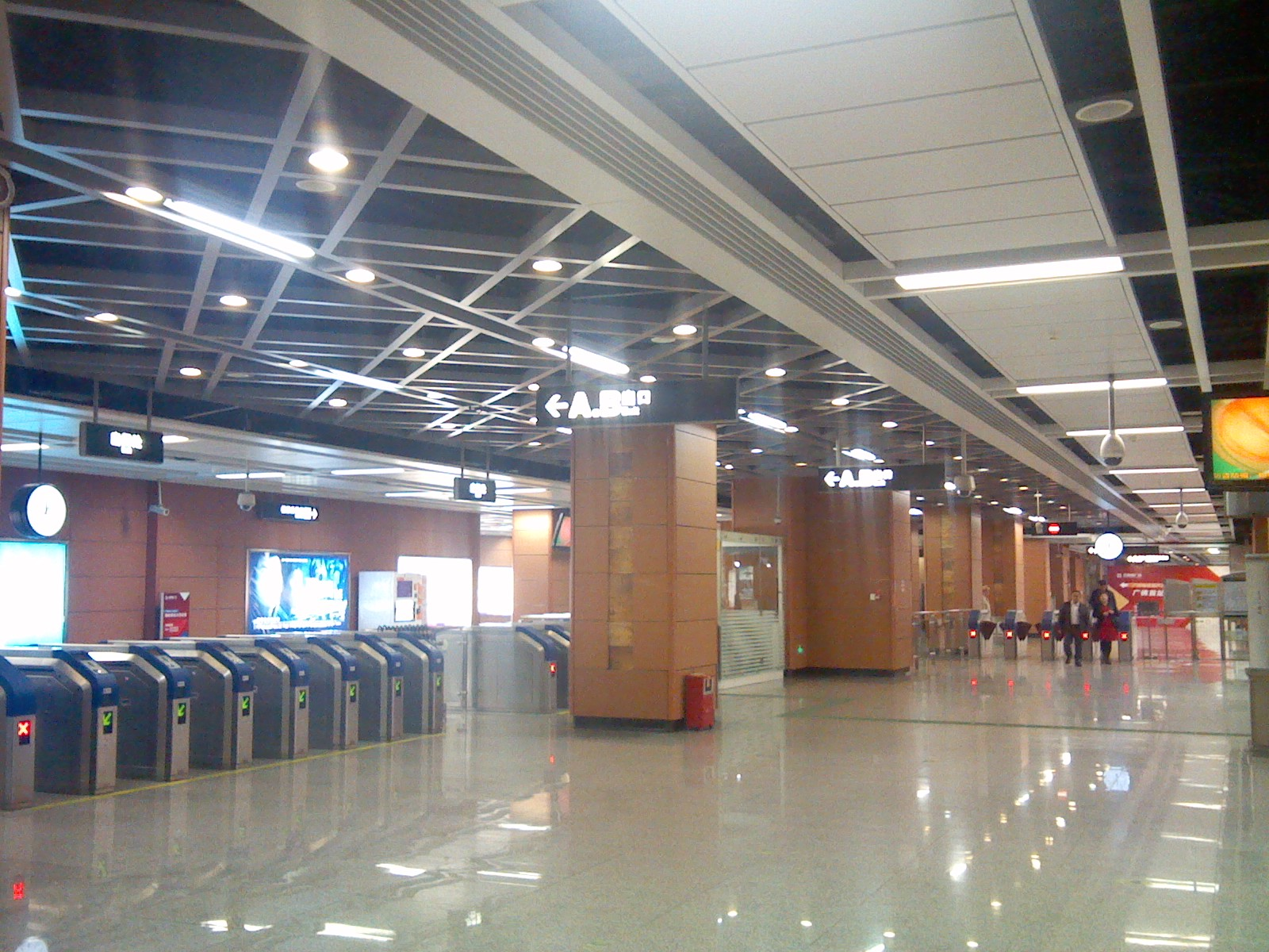 车站站厅大道